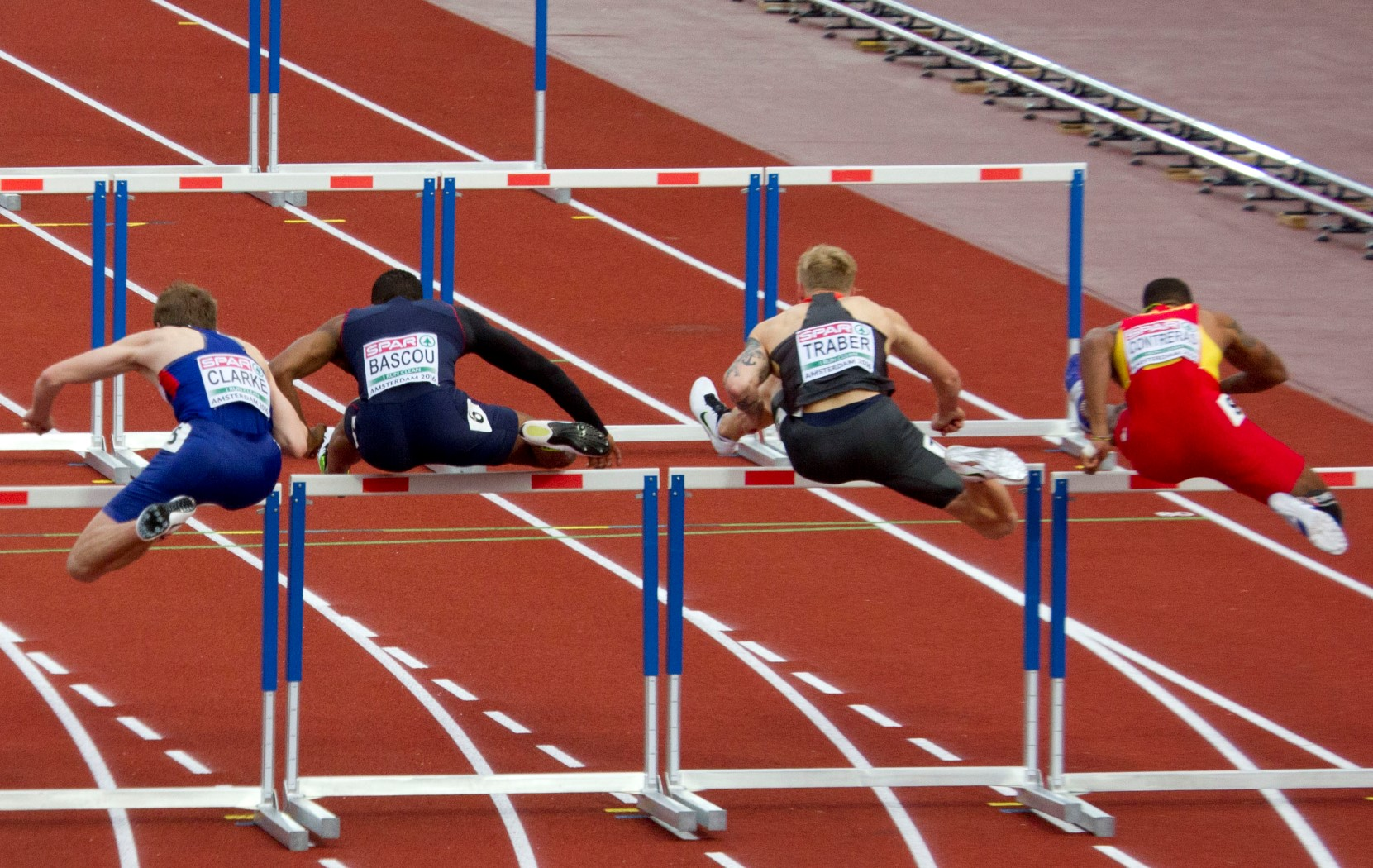 476 halve finale 110mH bascou